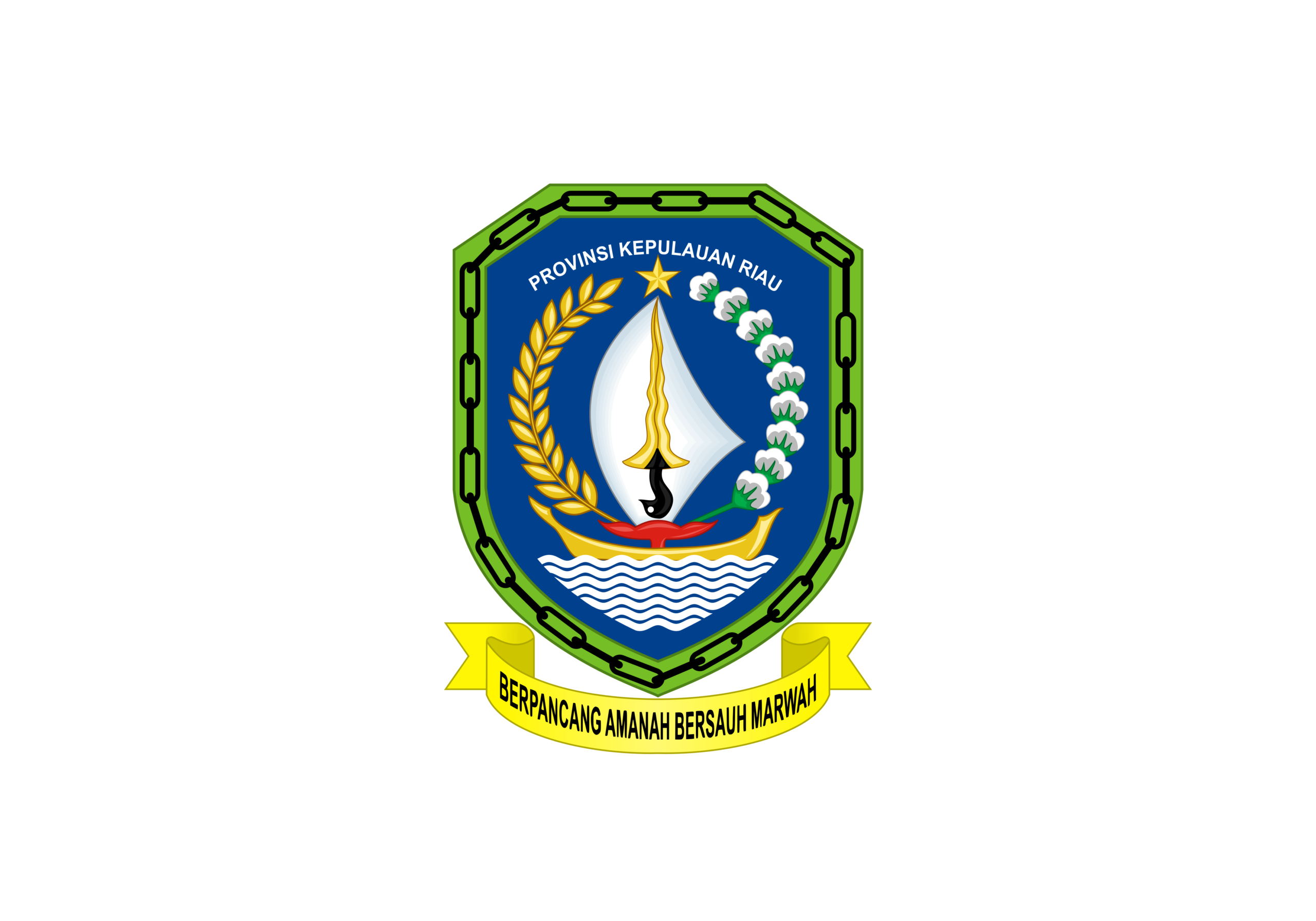 Flag of Riau Islands